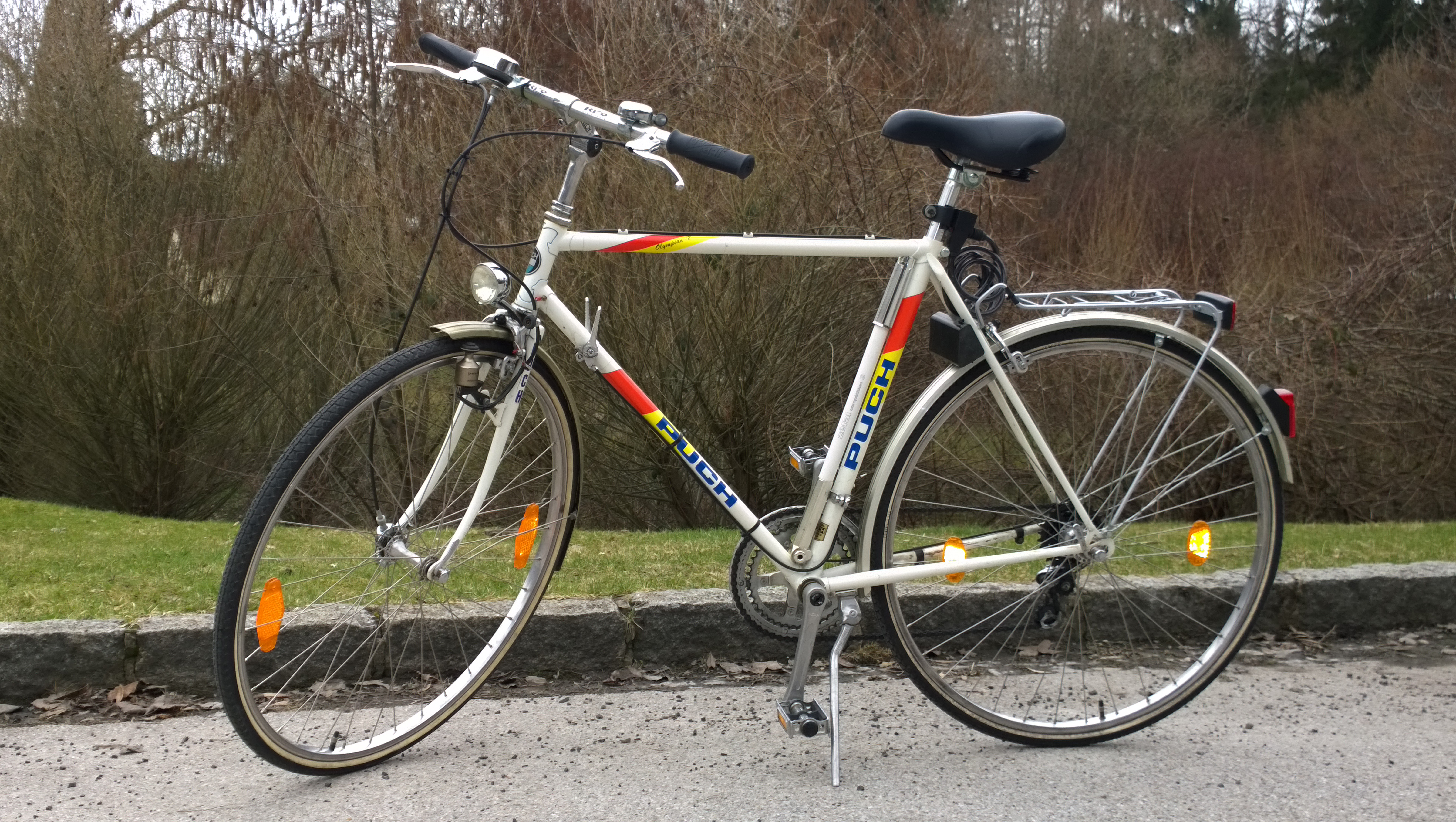 Puch Olympian 12 men's bike, construction year 1985, Positron 12 gear shift